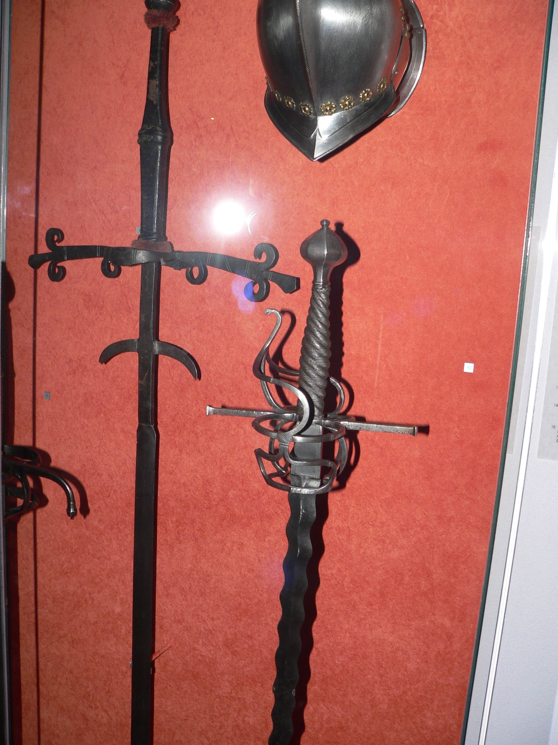 Swords, musee d'Art et d'Histoire de Neuchatel